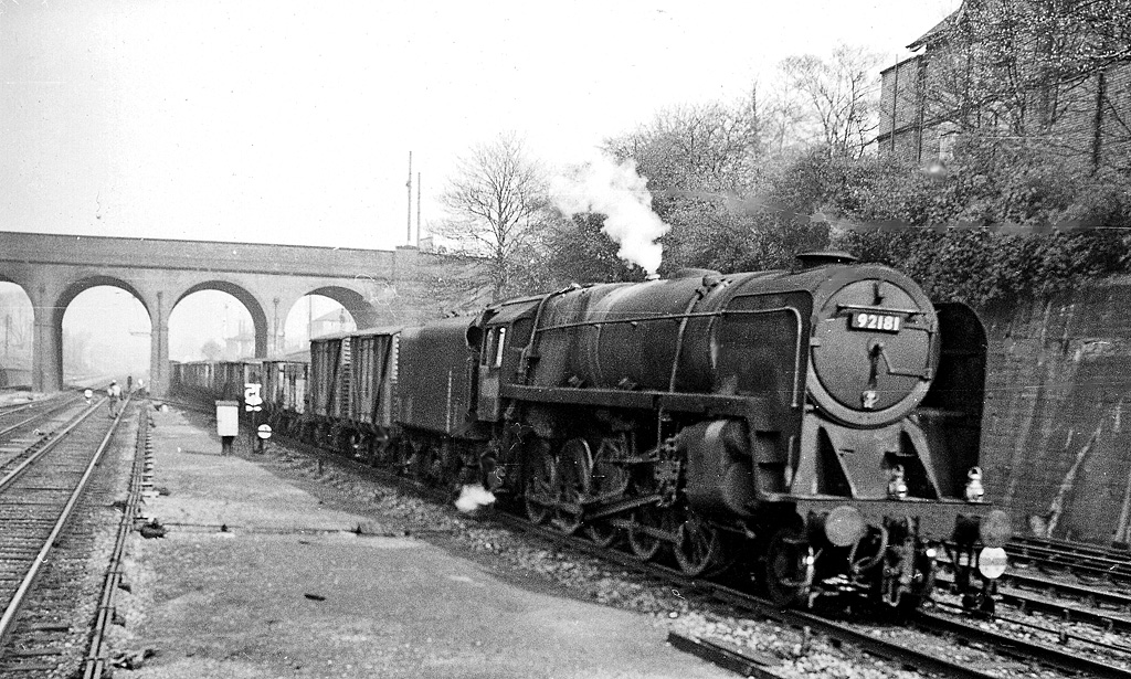 Up ECML mineral at New Southgate. View northward, under Friern Barnet Lane Bridge towards Hatfield, Hitchin, Peterborough and the North. This coal train is on the Up Fast running Class E (partially fitted), with BR Standard 9F 2-10-0 No. 92181. (See also TQ2076 : Parliament Mews.